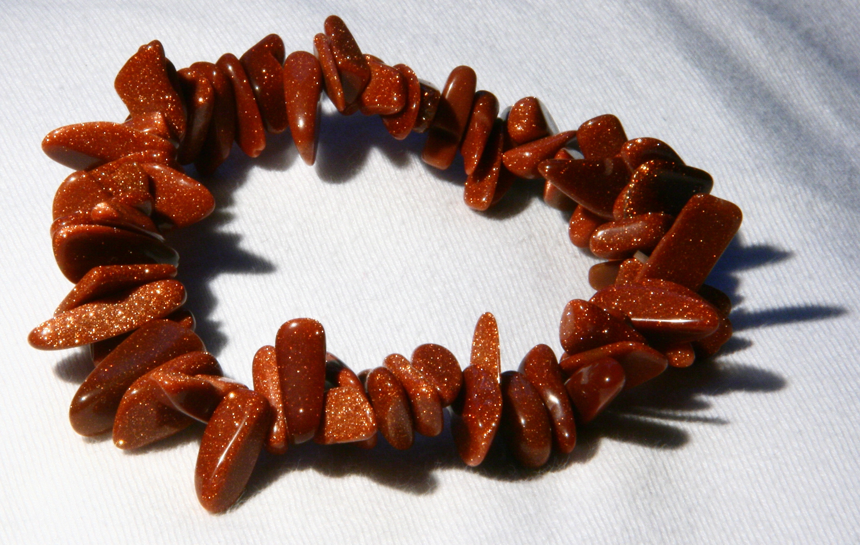 Wristband of Goldstone (gemstone)